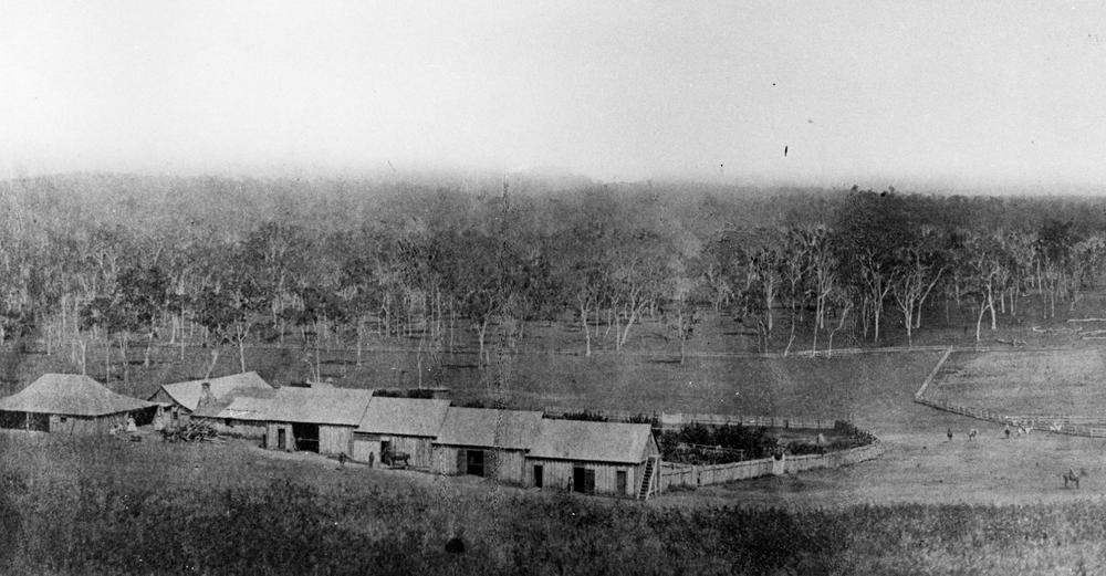 Tarong Station on the Darling Downs near Bell